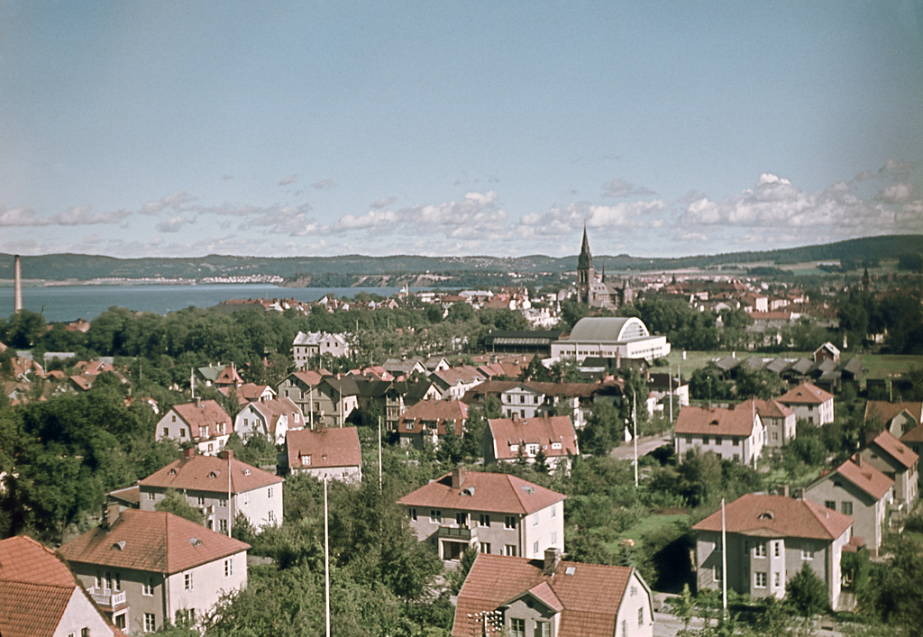 Jönköping by Lake Vättern, viewed from the Town Park.